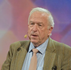 Simon Blackburn, British philosopher, at the Nobel Week Dialogue, Göteborg, 2017